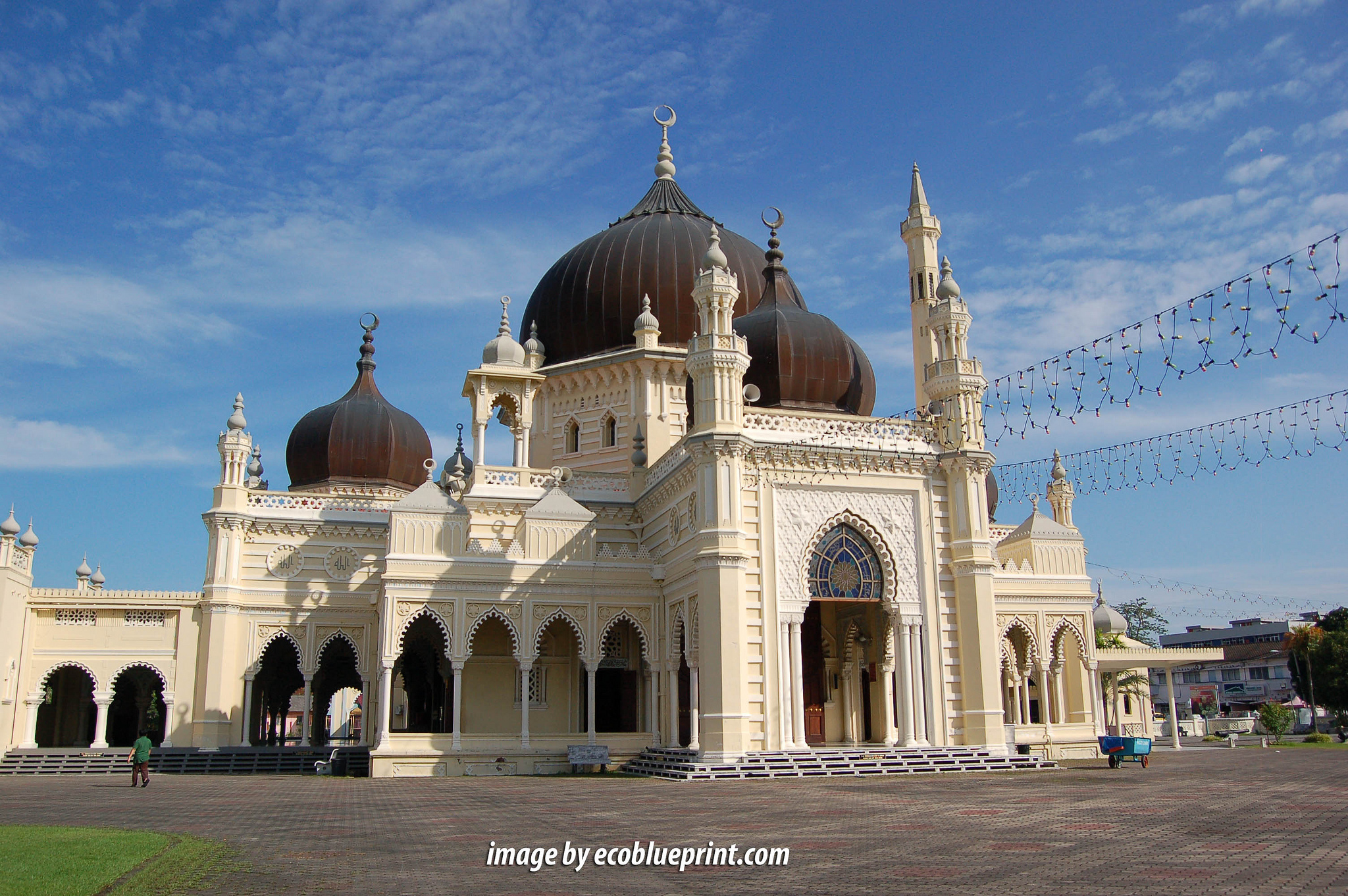 Zahir Mosque, Alor Setar (Kedah, Malaysia)